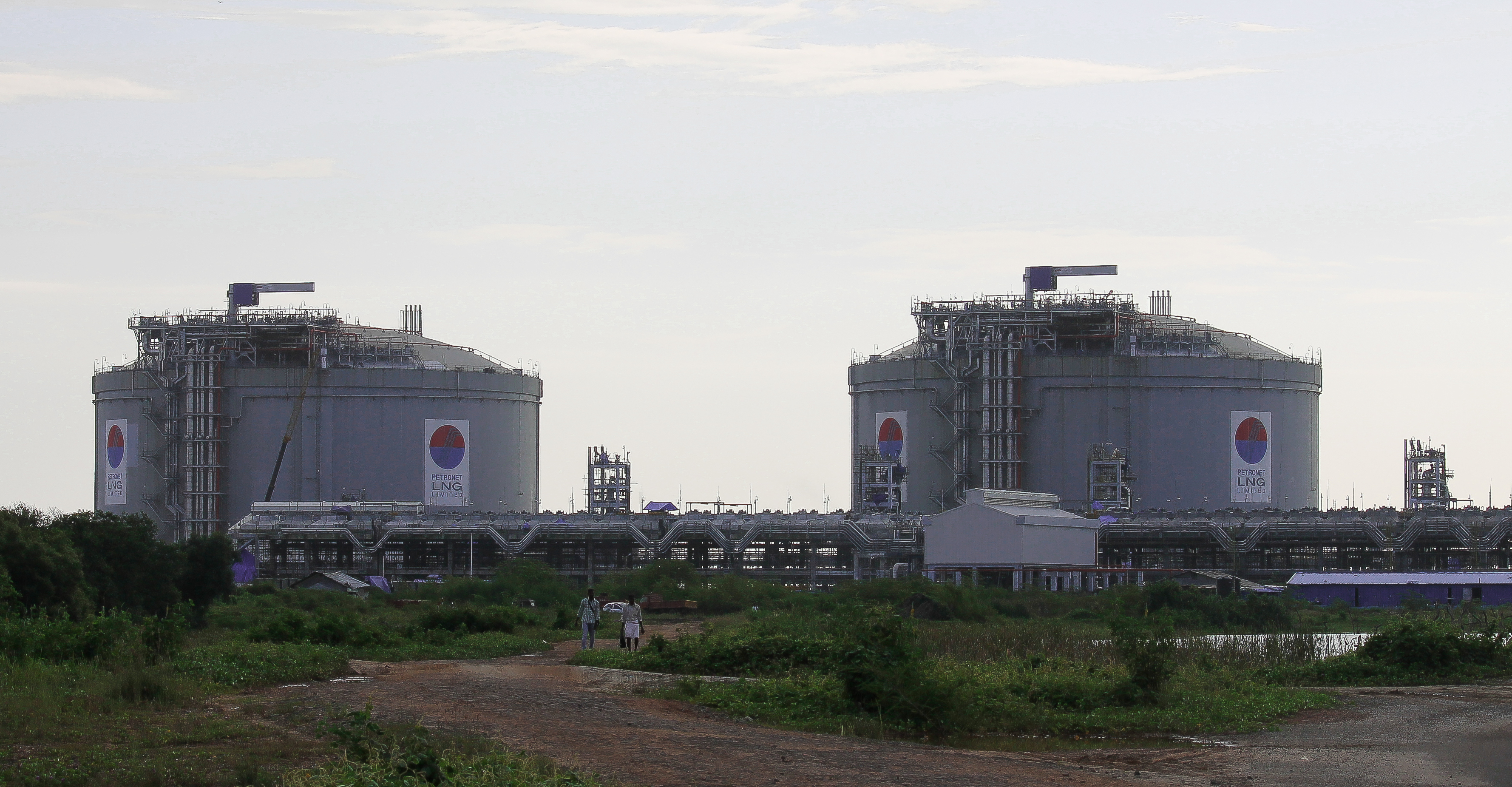 Petronet LNG storage facility at Puthuvaype, Kerala, India